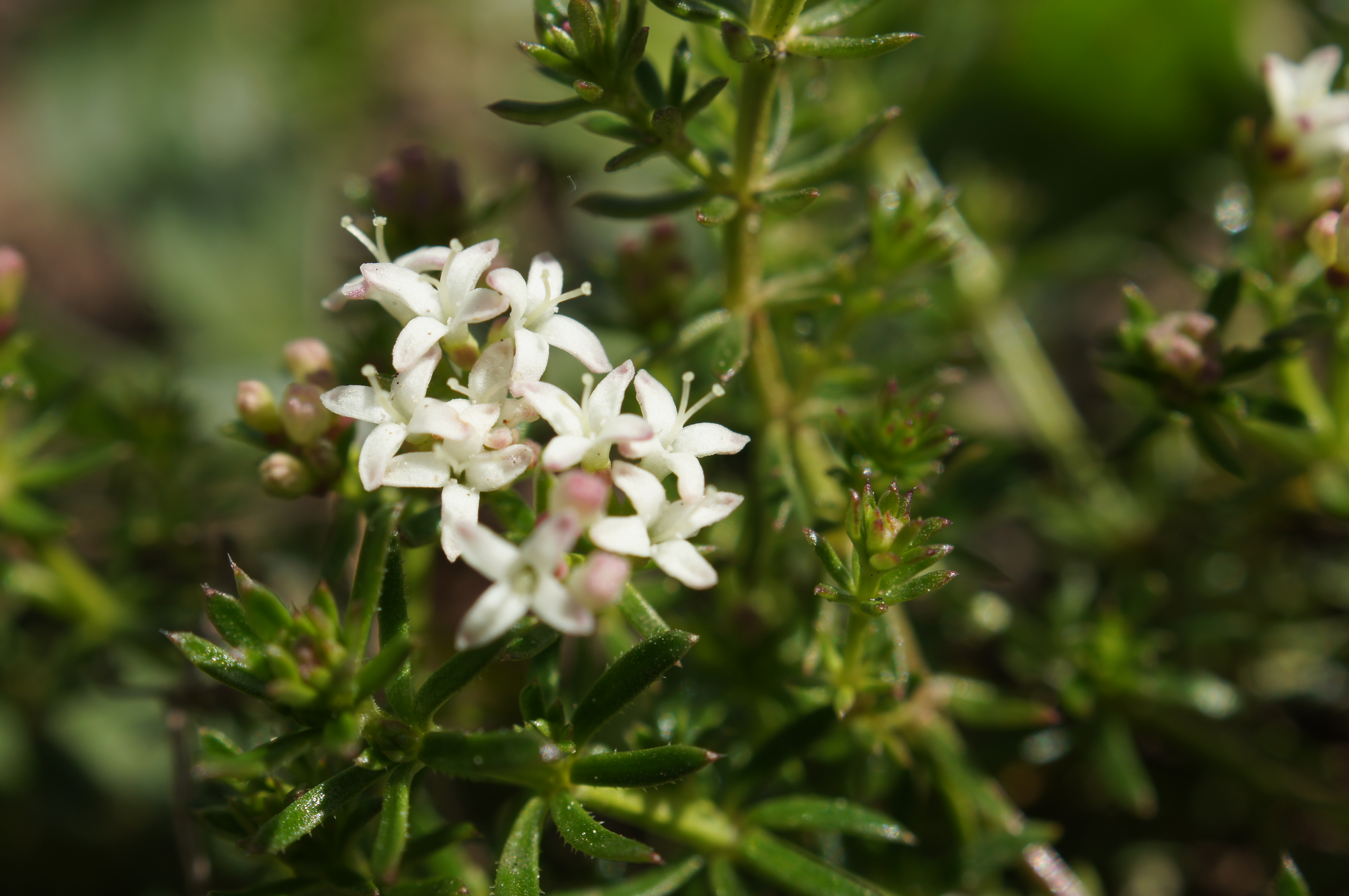 Native, cool season, perennial, erect to decumbent herb which can be somewhat woody at the base. There are male and female plants. Stems are mostly to 20 cm long, usually much-branched and with sparse, short, recurved hairs. Leaves and stipules are in whorls of 5 or 6, linear and 2–8 mm long; apex is acute to shortly acuminate usually with a short point; margins and midrib are more or less scabrous. Flowerheads are terminal or in the uppermost axils and 1–3-flowered. Flowers are unisexual, 4-petalled, white and 2–3 mm long. Styles are 2-fid. Stamens 4. Fruit are 3–4 mm long, deeply lobed, black-brown. Flowering is in spring and summer. Grows in woodland, forest and grassland, common and widespread.